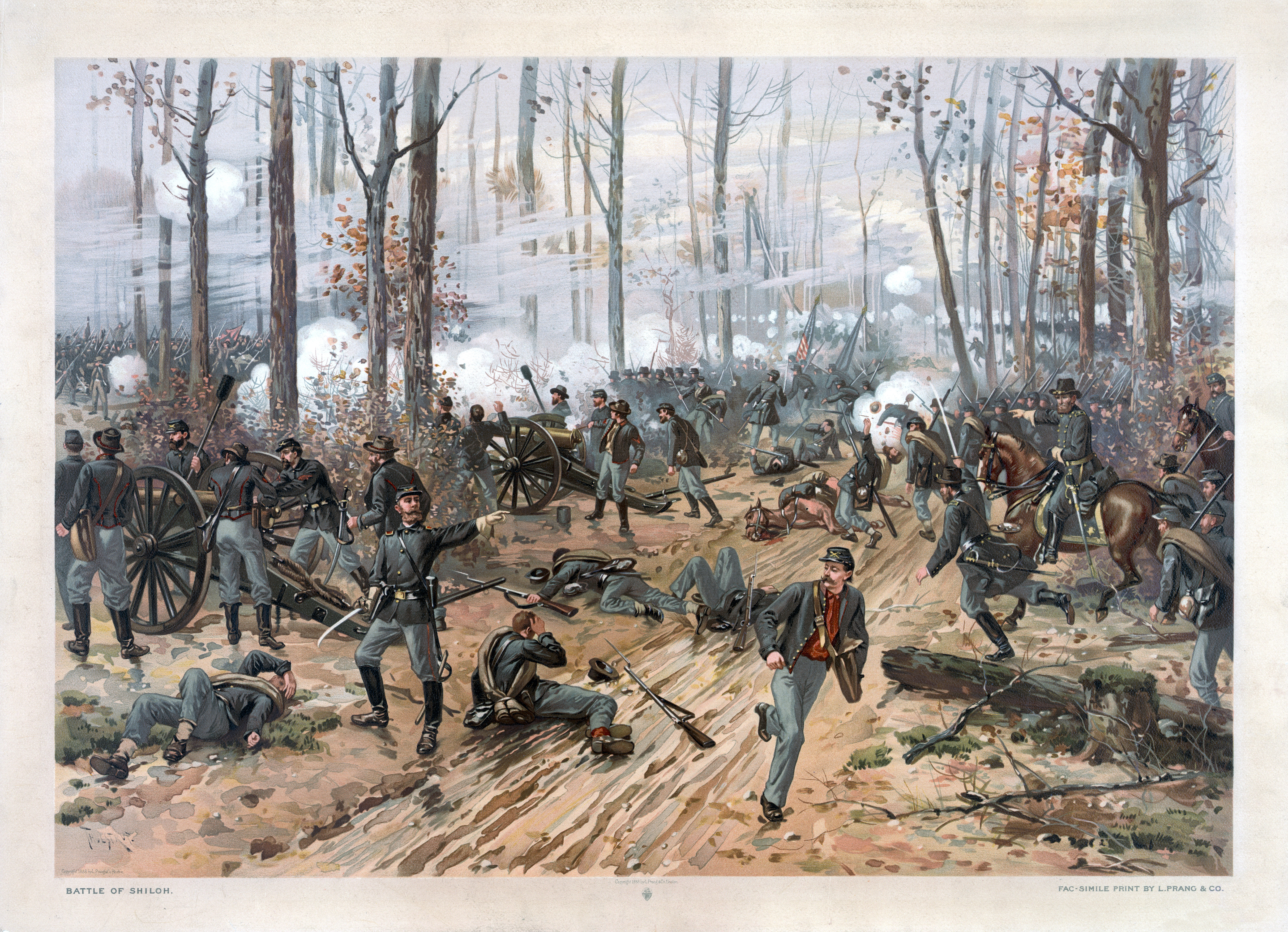 American Civil War, produced by L. Prang & Co. This is a REDUCED SIZE VERSION of the original at Thure de Thulstrup - Battle of Shiloh.jpg